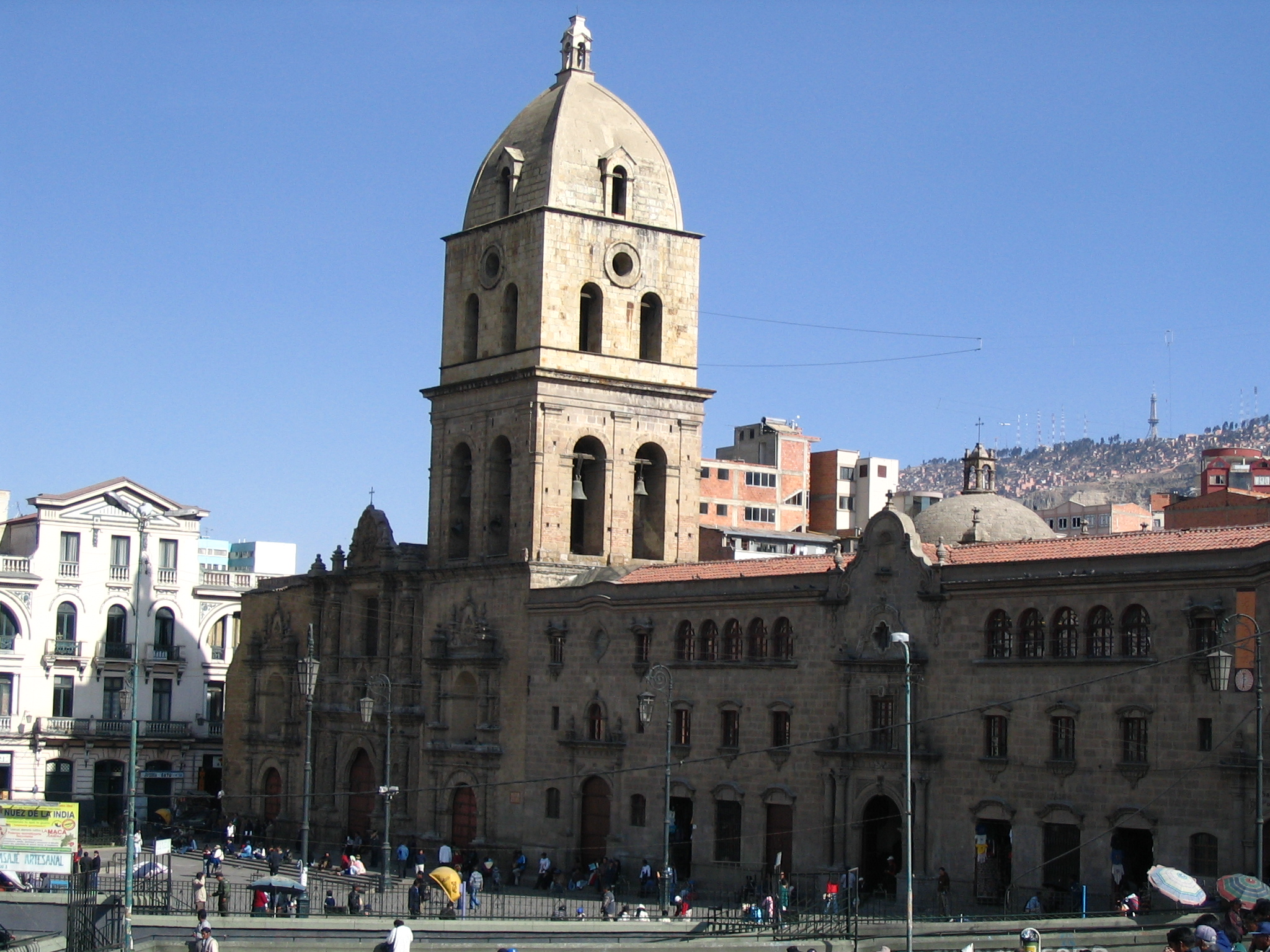 San Francisco La Paz Bolivia Photo's Author: User:Anakin